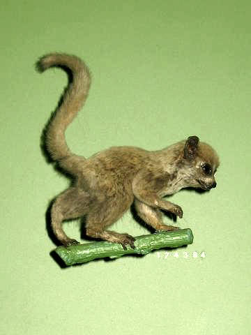 Gray Mouse-lemur in American Museum of Natural History, New York